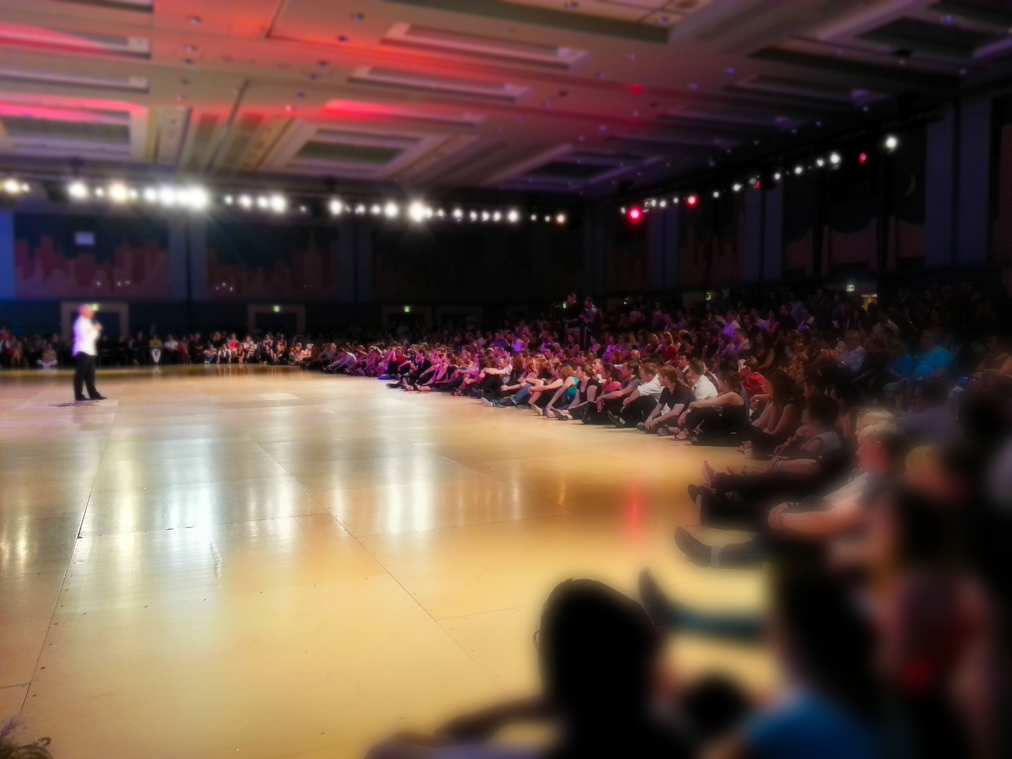 Crowded dancefloor at FOWCS 2014 before shows